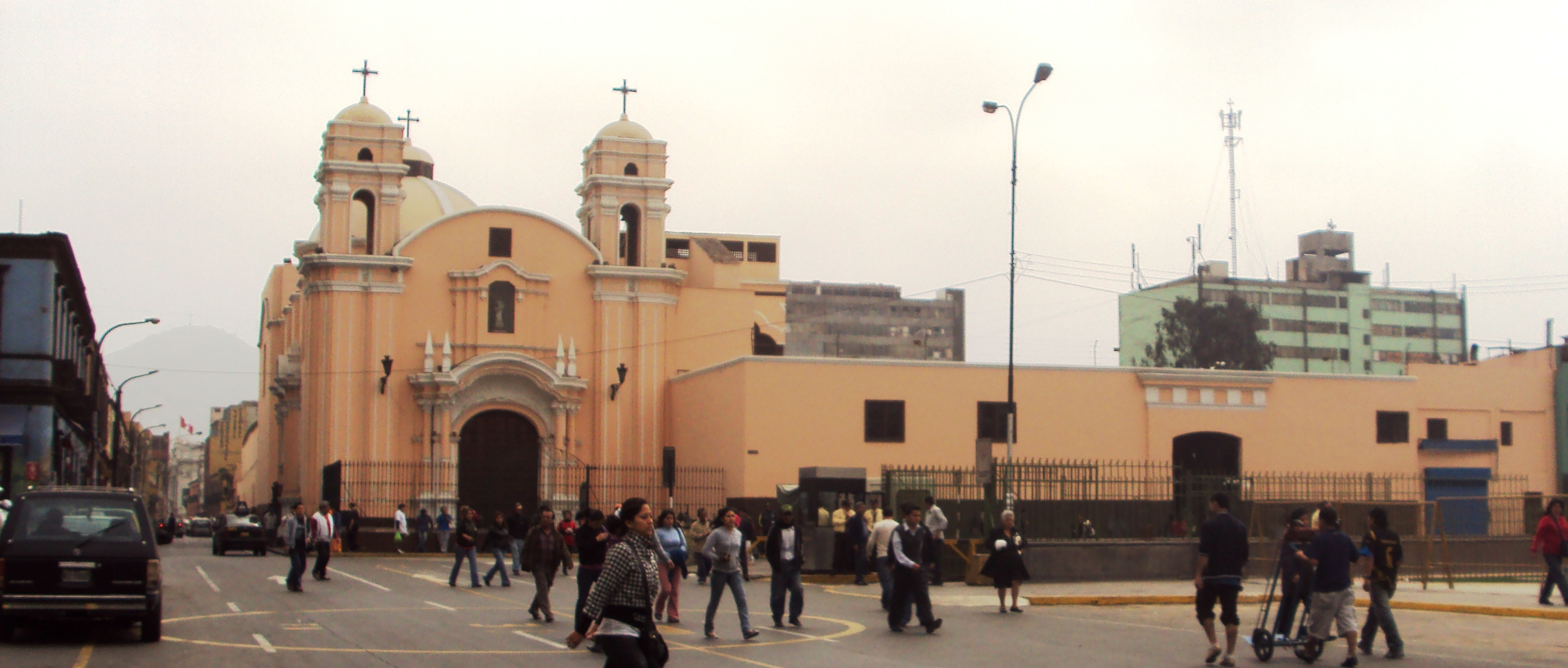 Saint Rose of Saint Mary's Monastery in Lima, Peru.